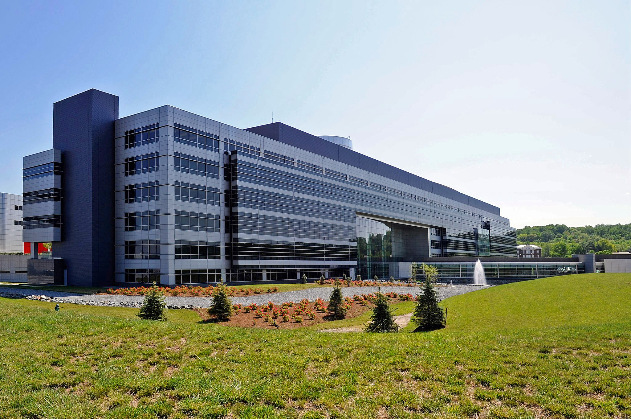 DIA headquarters expansion at DIAC